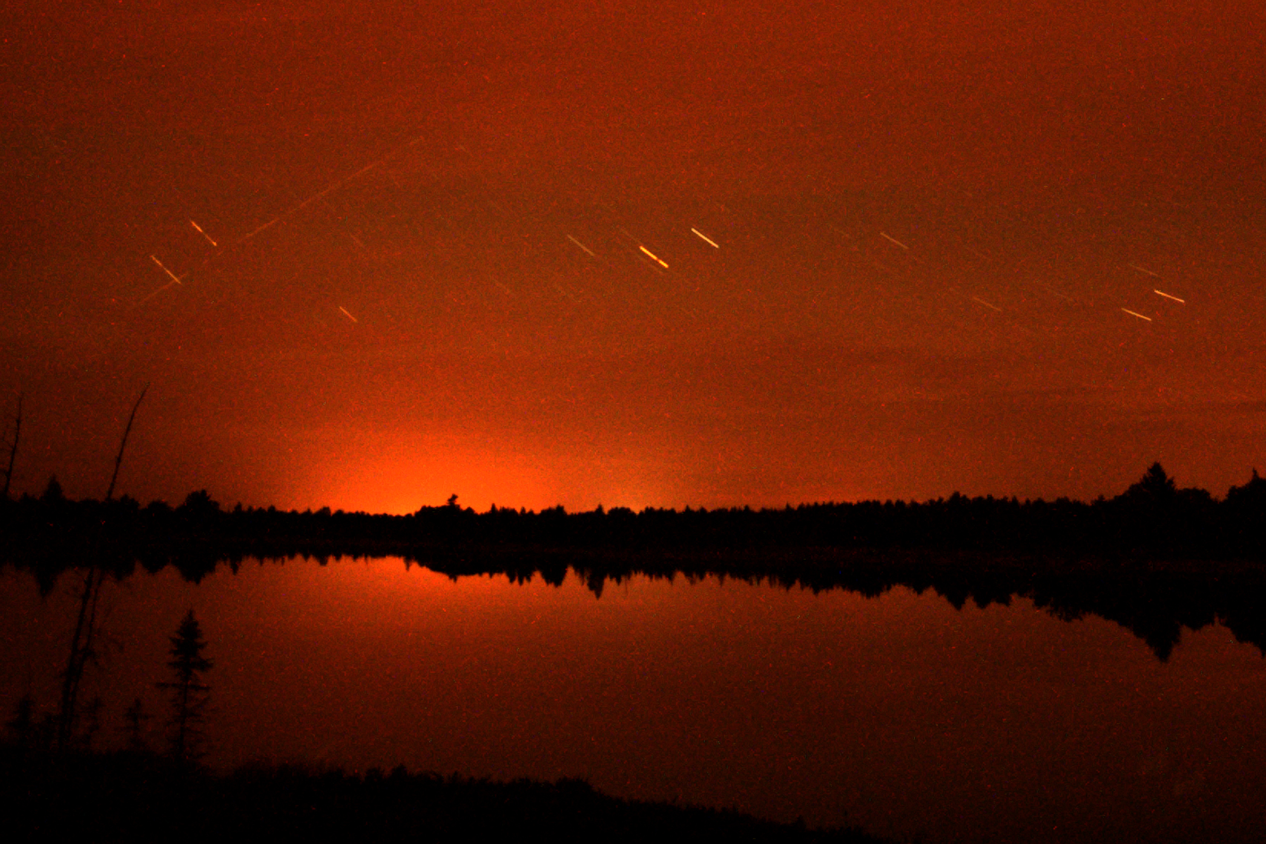 Tried to get shots of meteors during the Perseids, but the clouds weren't co-operating. The streak in the upper-left corner (almost perpendicular to the star trails) might have been an aircraft, but I'm going to say it was a meteor. Shot at Torrance Barrens. TPMG was there.